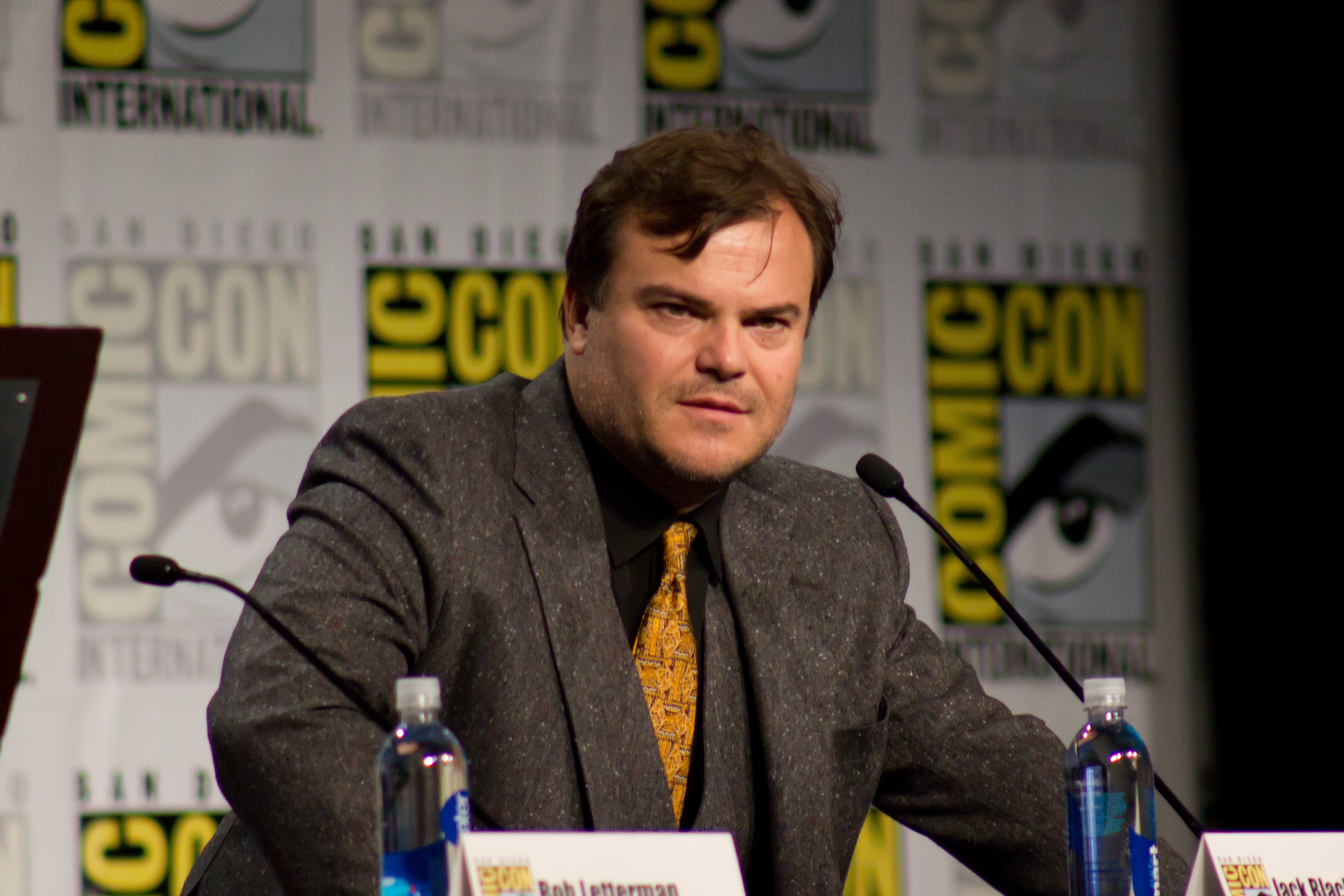 Jack Black at the Goosebumps panel at the 2014 Comic-Con International